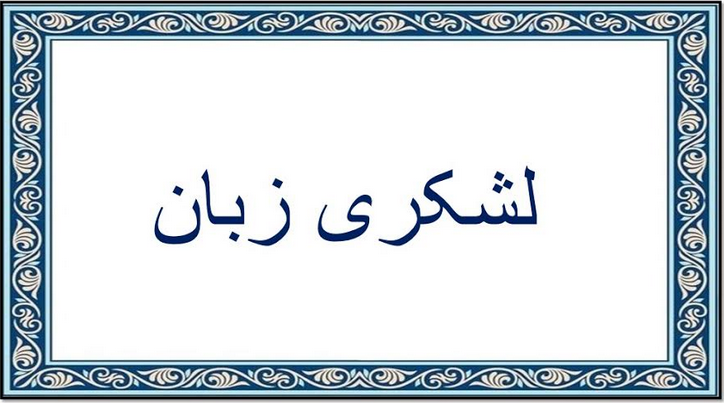 A calligraphy with the title Lashkari Zaban in Nastaliq script